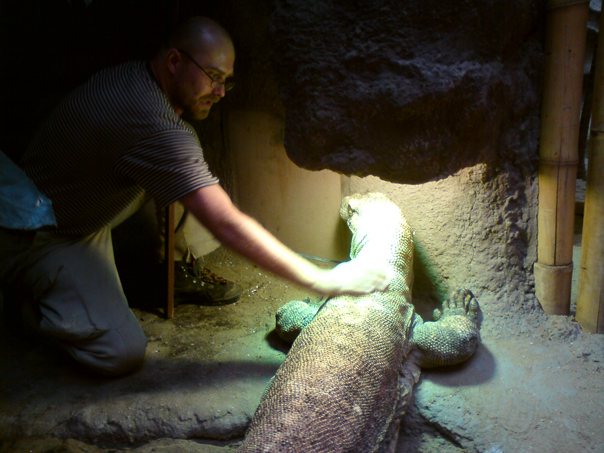 Komodo dragon and zookeeper Jan Janošek in Prague Zoo.